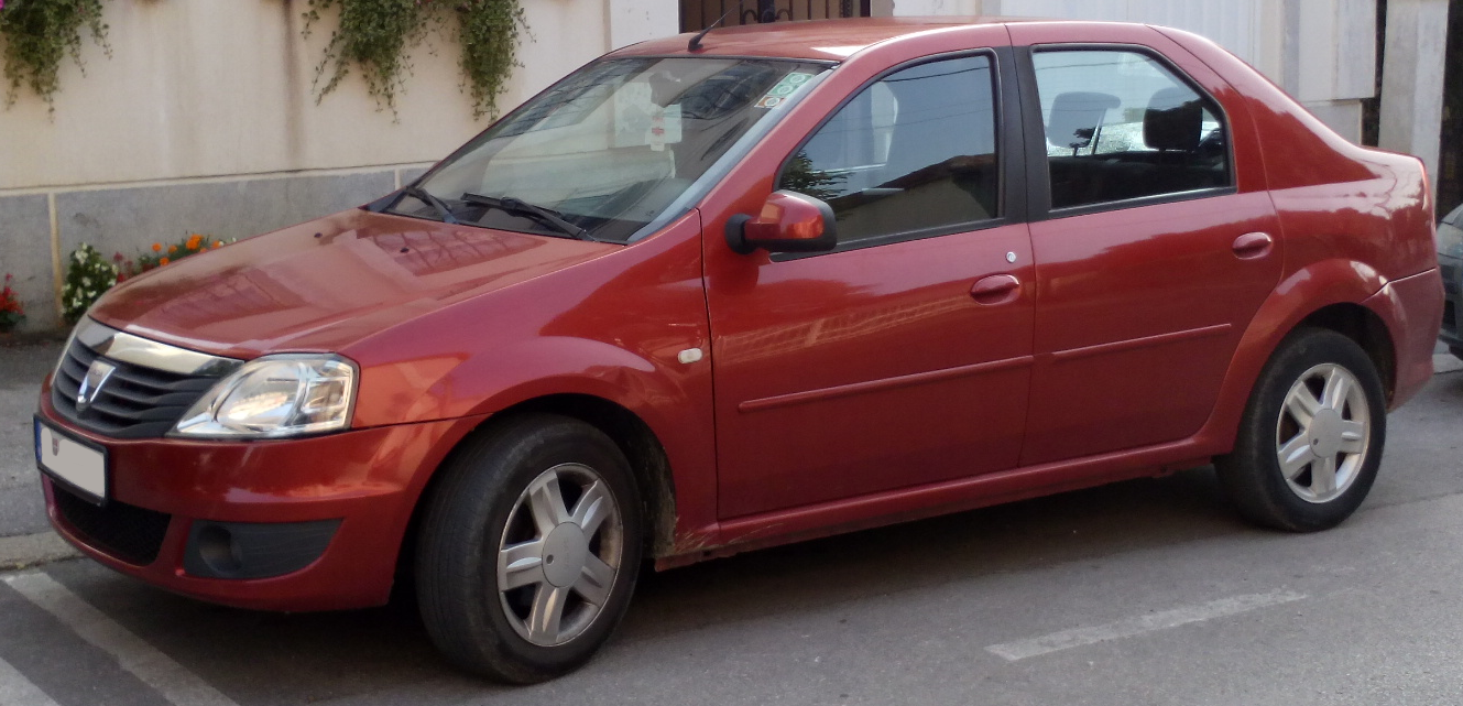 Dacia Logan Mk1 Facelift in Kragujevac